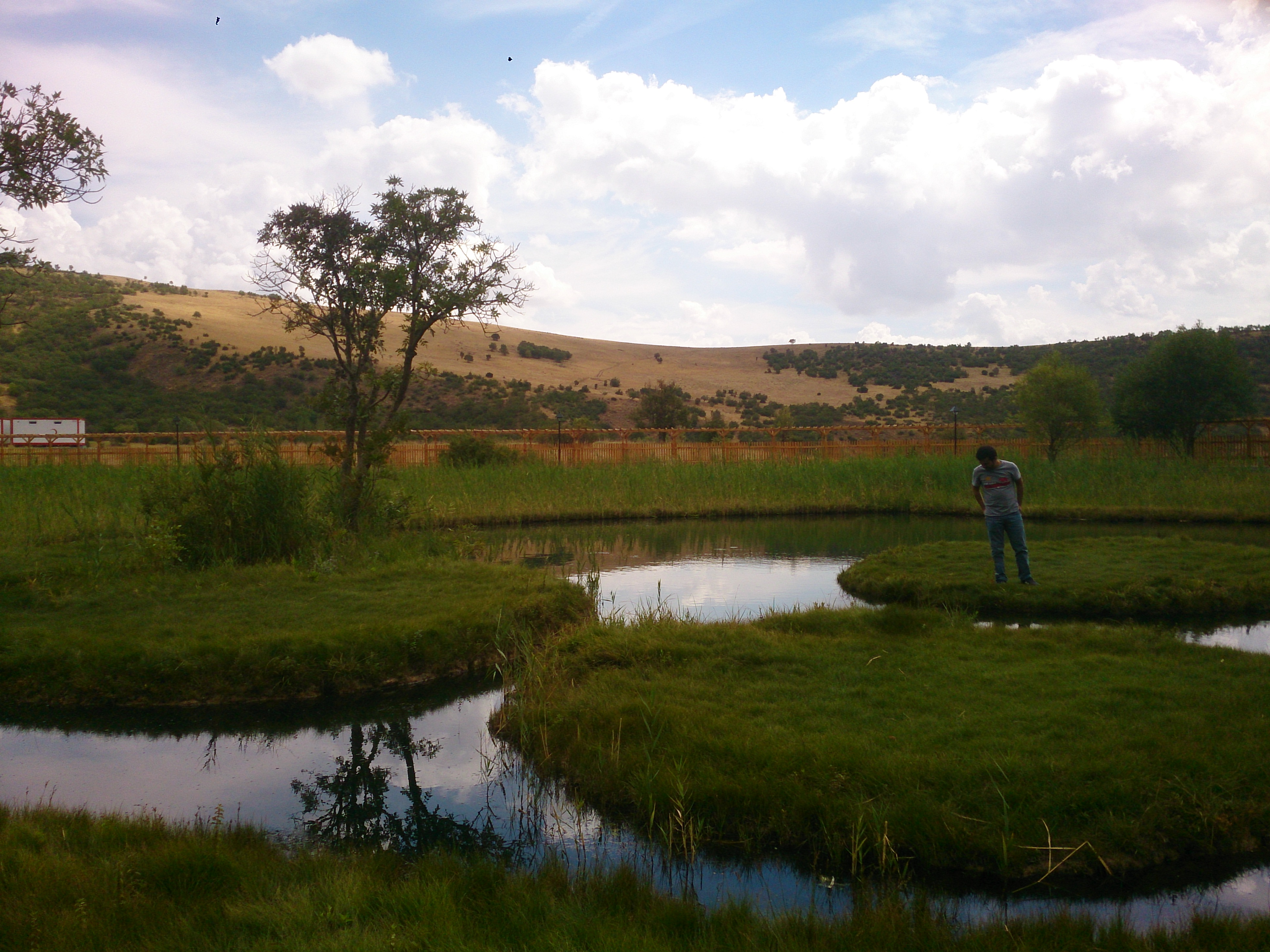 Yüzen Ada - Solhan -Bingöl